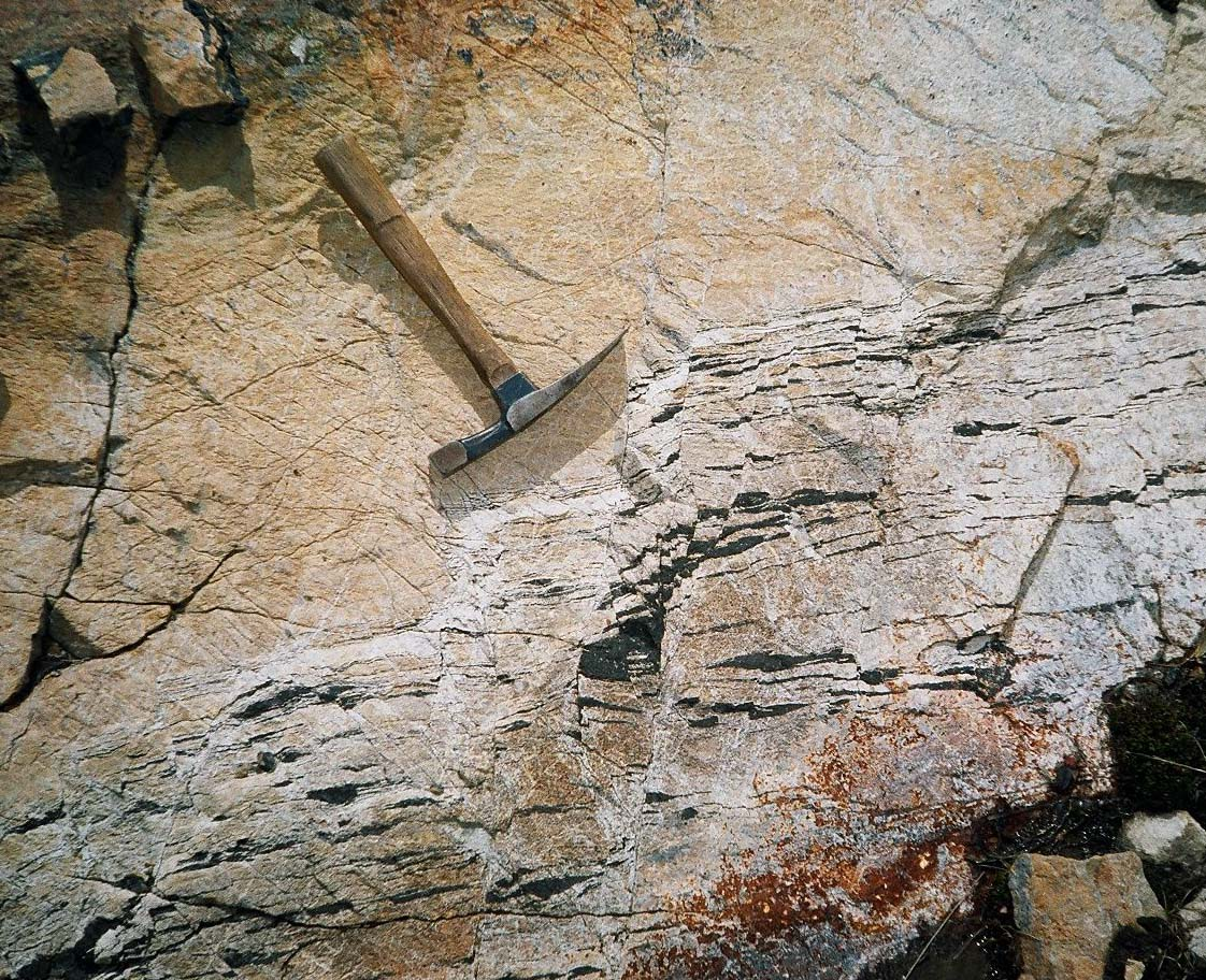 Ultramafic rocks will bleach when weathered but are dark-coloured inside. Otherwise the black bands of chromite would not be visible. This chromite appears to be injected along stepped fractures as opposed to cumulate layering. The chromite also carries anomalous PGE (Platinum Group Element) values. Distant view of prospect area: Atop 'that' mountain, near Jakes Corner, southern Yukon, Canada.